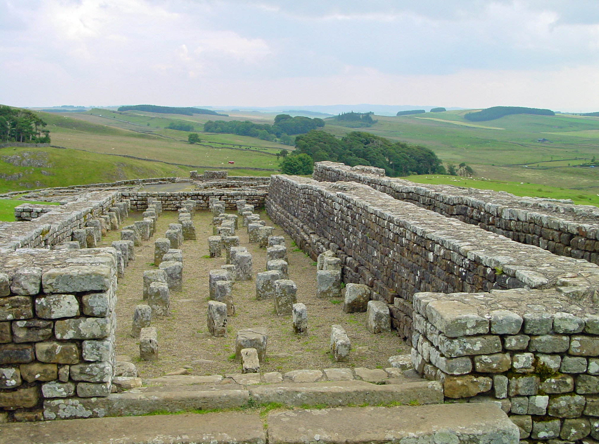 Granary at Housesteads Fort at the Hadrian’s Wall